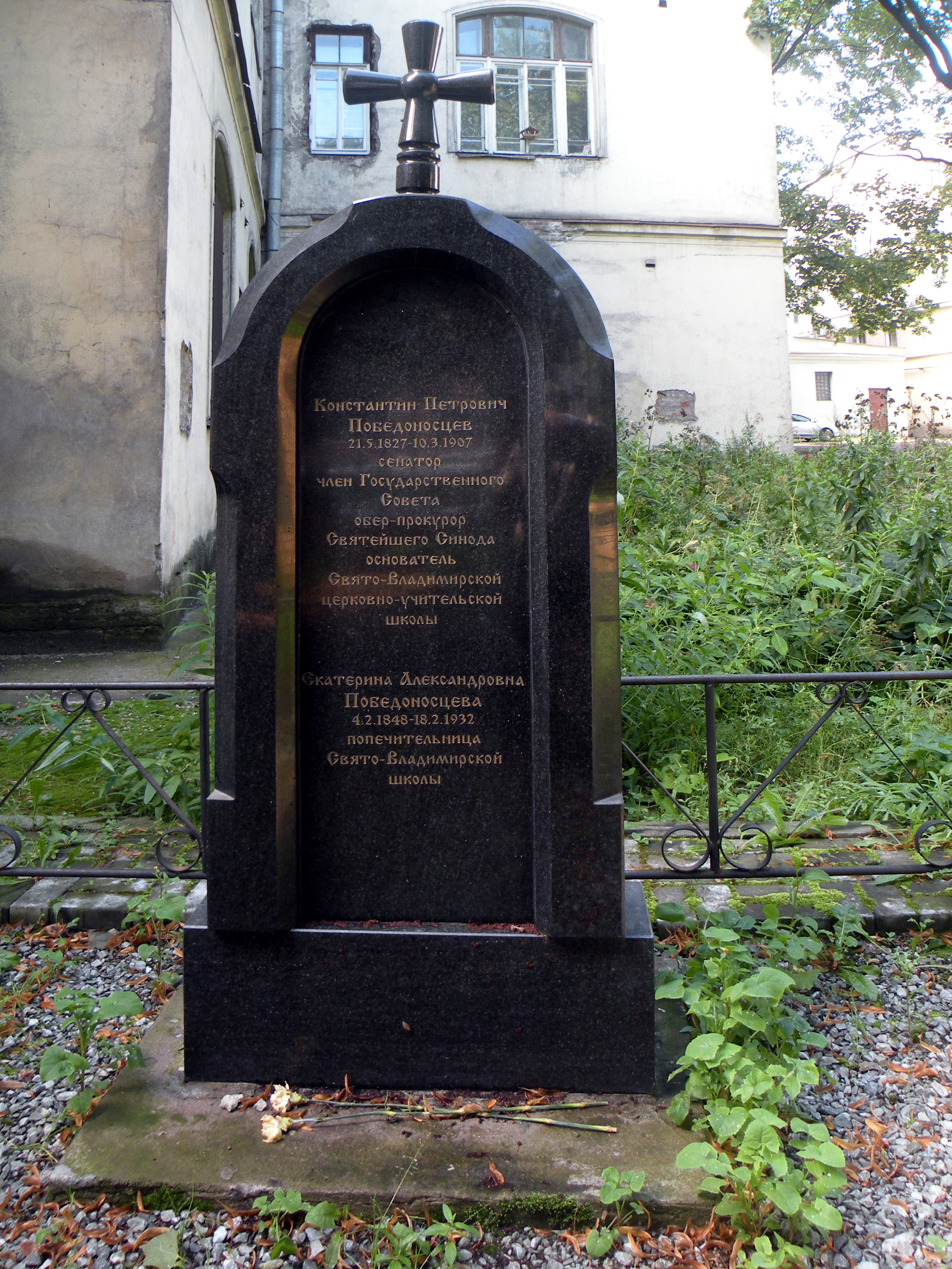 Konstantin Pobedonostsev grave in the yard of the house 104 in Moskovsky prospect SPb